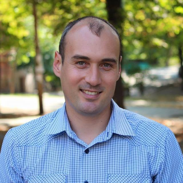 Photo by Prokhorov D. V.